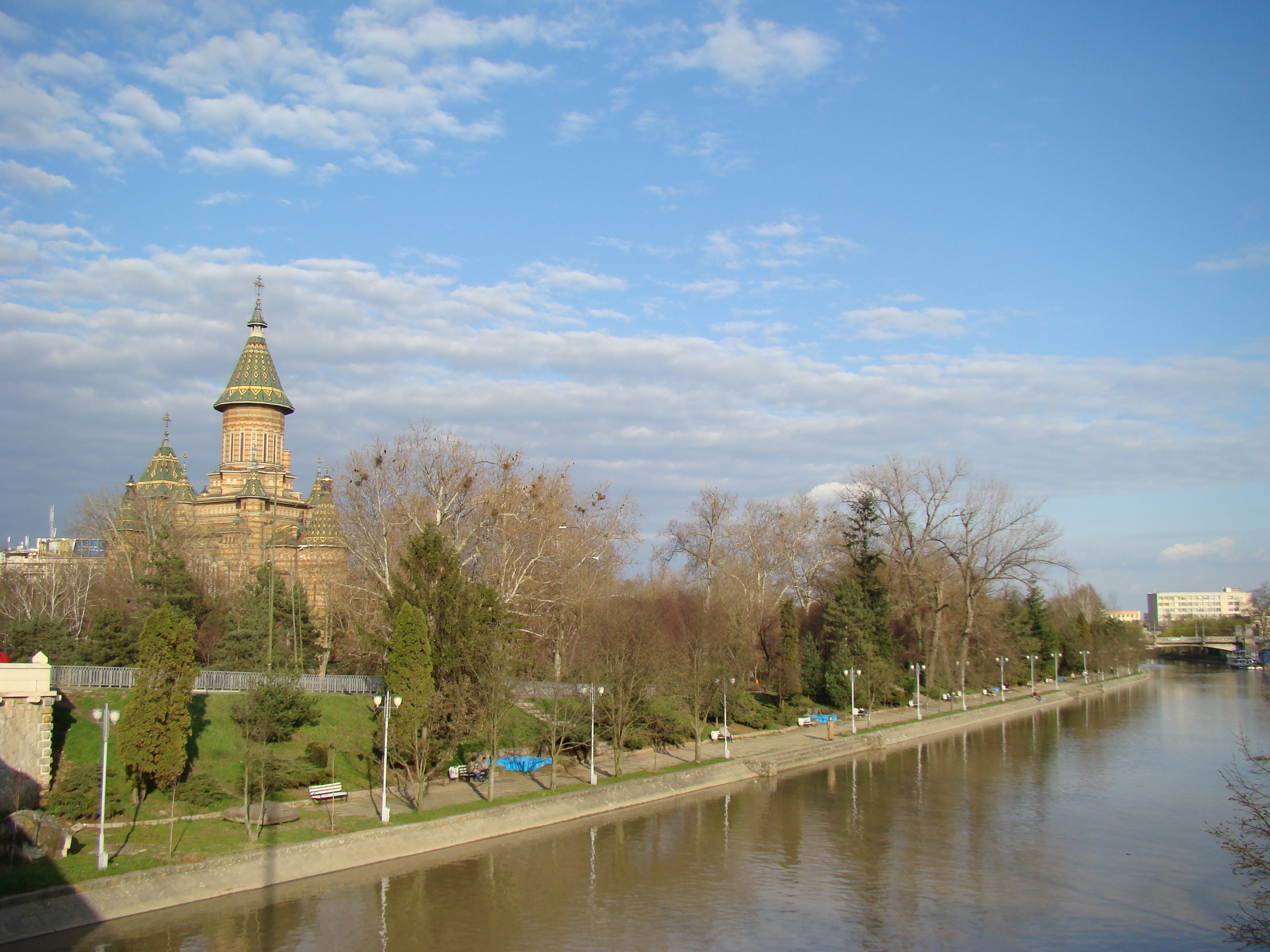 Timisoara Bega Channel